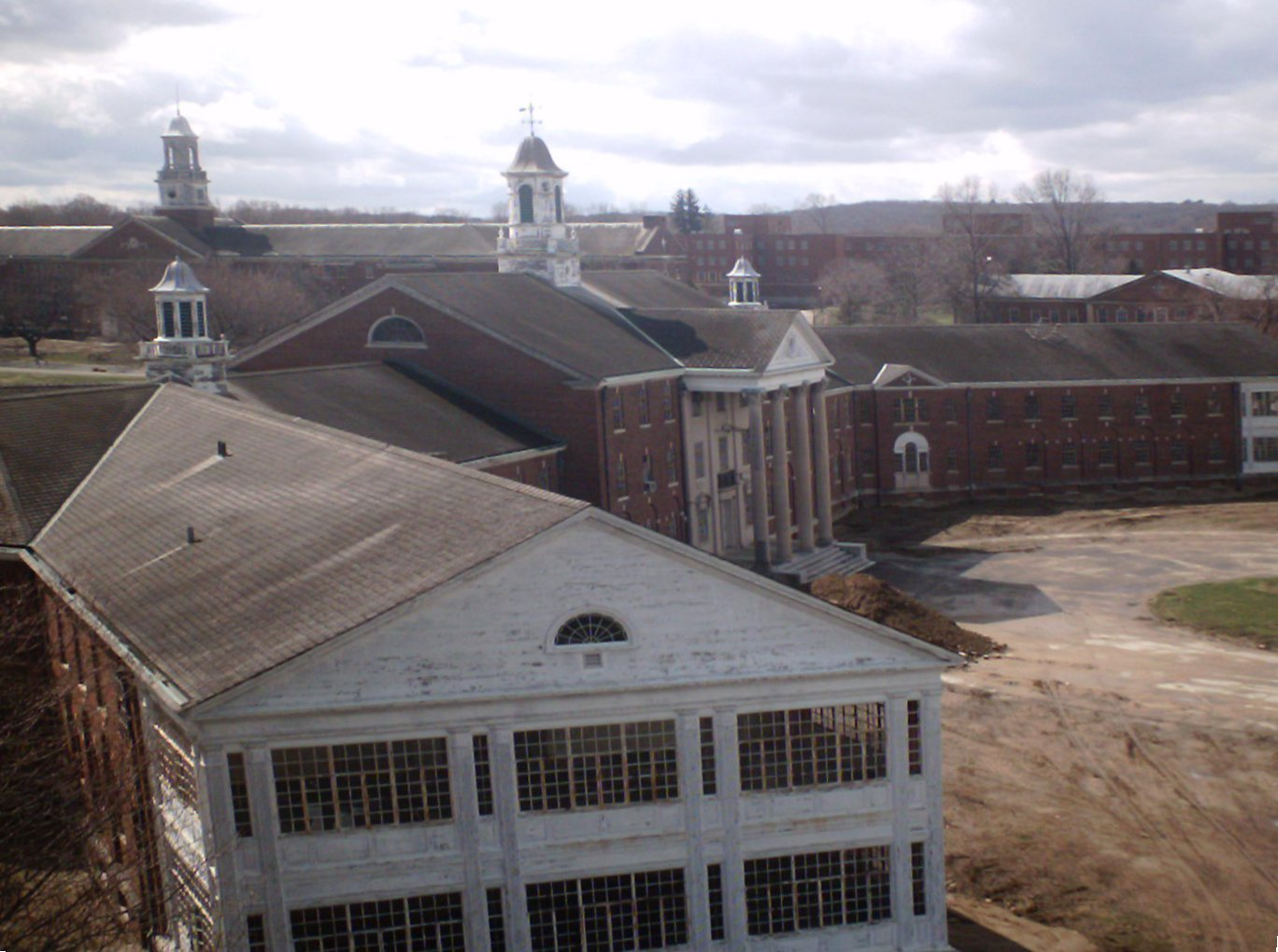 The Fairfield State Hospital is a huge place that was built 1933 to house the insane patients overflowing from two other state hospitals in Connecticut. The place is as big as a Ive League School. I am not sure but it must be over a hundred acres and dozens of buildings and houses. (map) Most of the buildings there have these white belfrys all over the place. From a distance the place looks nice and quaint. From close up the buildings look like a nightmare of an insane asylum. The hospital is closed but the grounds are open to the public and there are sports fields and good places to fly kites. I was disappointed at this trip. It was overcast and the light was pretty plain. I hope to go back sometime soon.